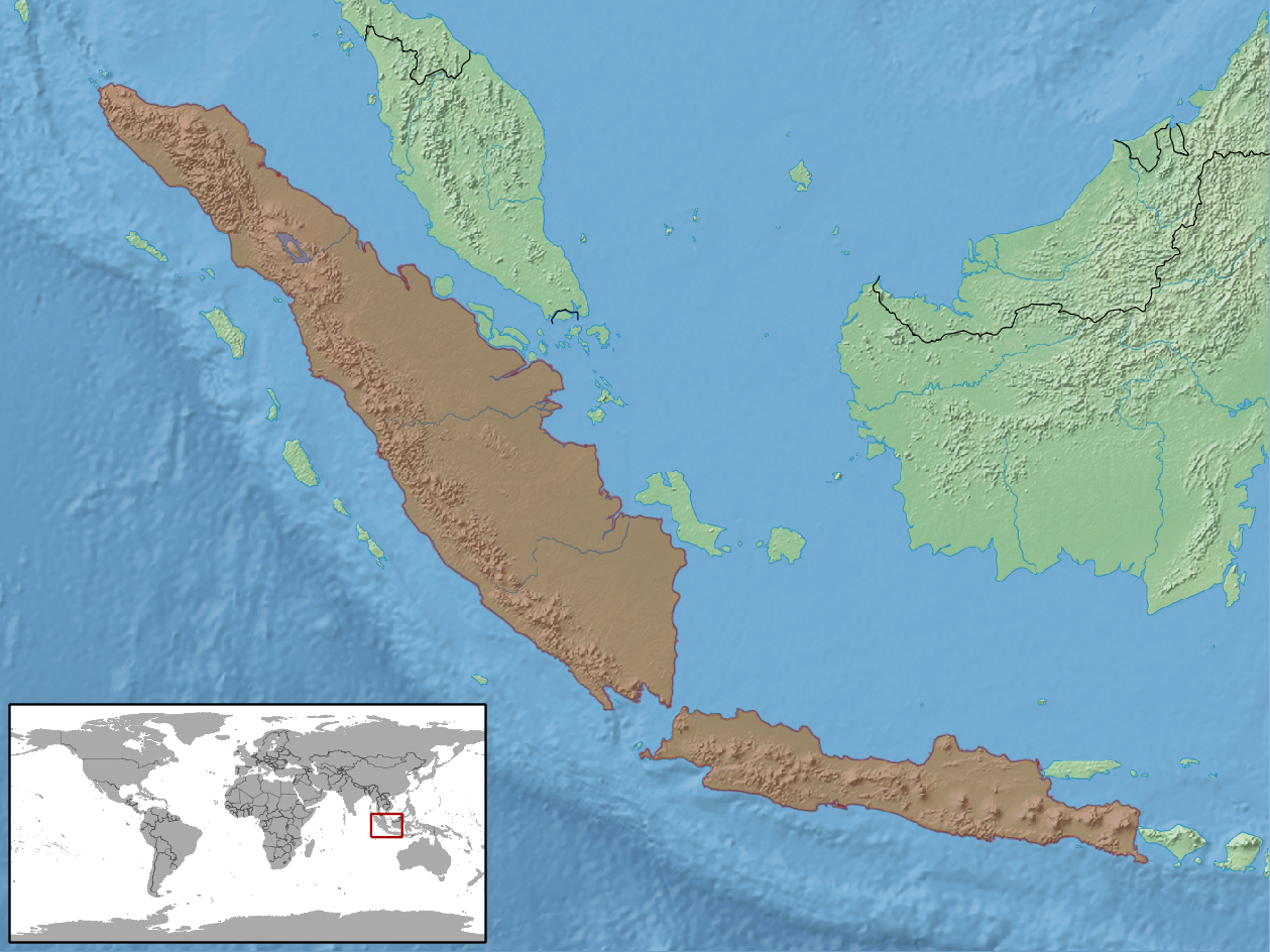 geographic distribution of 'Pseudocophotis sumatrana (Native: Indonesia (Java, Sumatra))